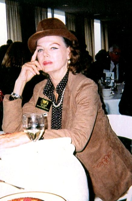 Isabel del Puerto as businesswoman.